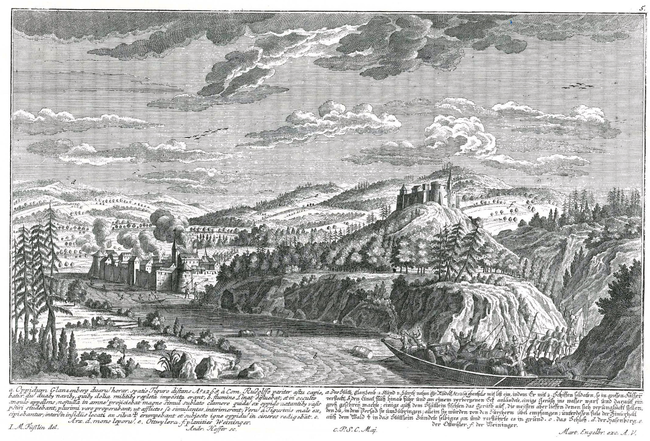 Glanzenberg, told to be destroyed in 1267 (Regensberger Fehde), nonhistorical illustration, 1715.